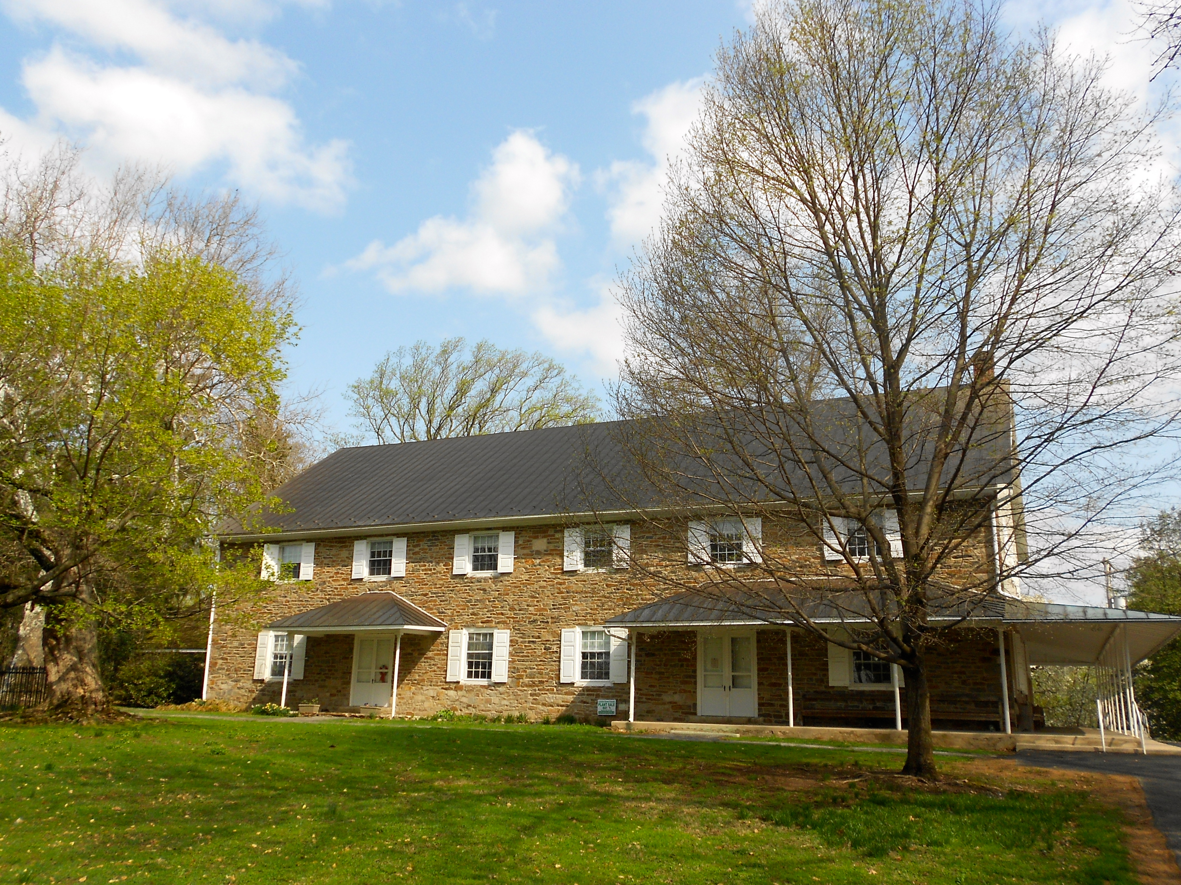 London Grove Friends (Quaker) Meeting House. Note that this is not located in London Grove Township, Chester County, Pennsylvania (which is nearby), but in West Marlborough Township, Chester County, Pennsylvania.